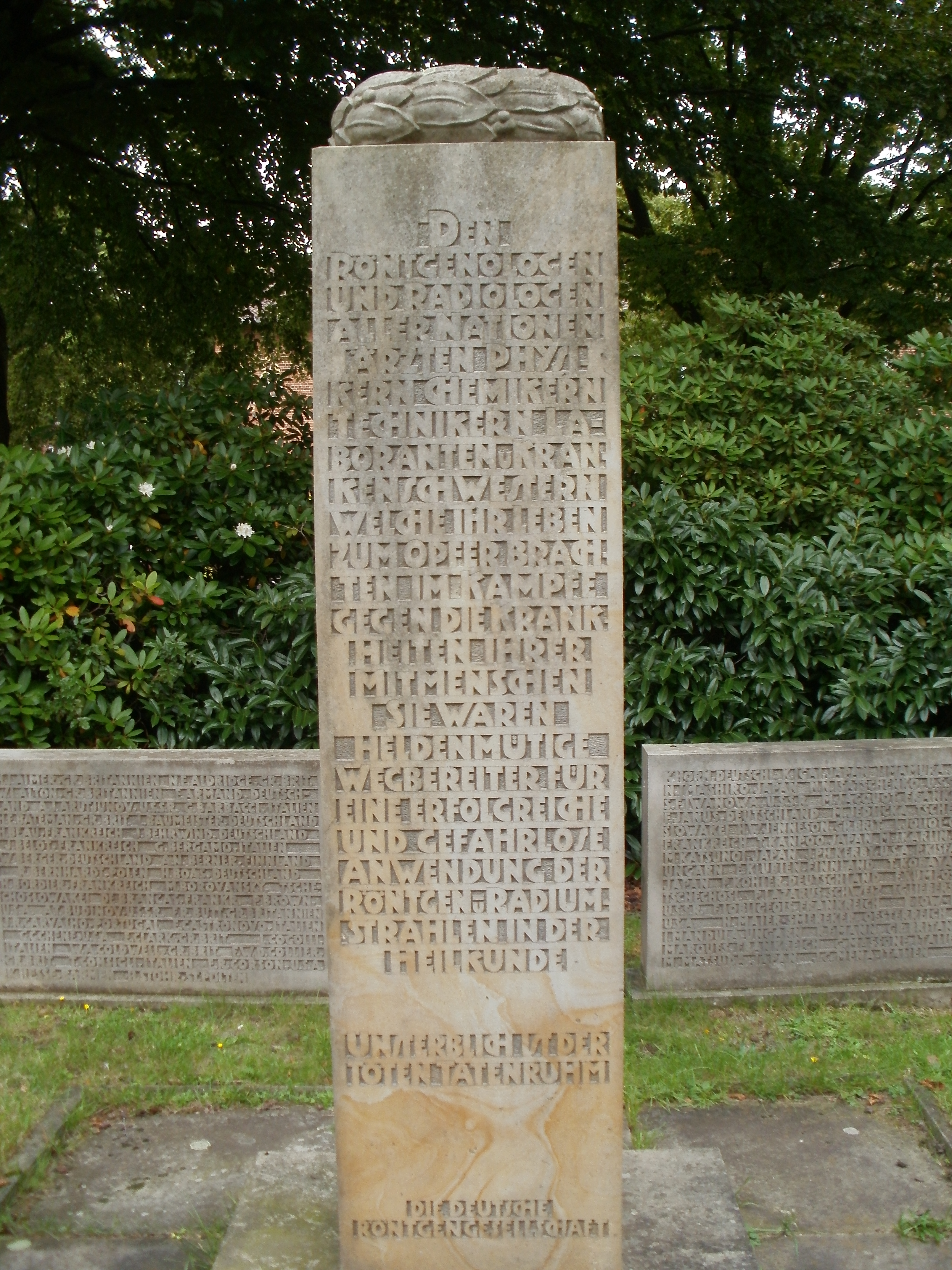 Monument to the X-ray and Radium Martyrs of All Nations on the grounds of the Asklepios Hospital St. Georg in Hamburg.